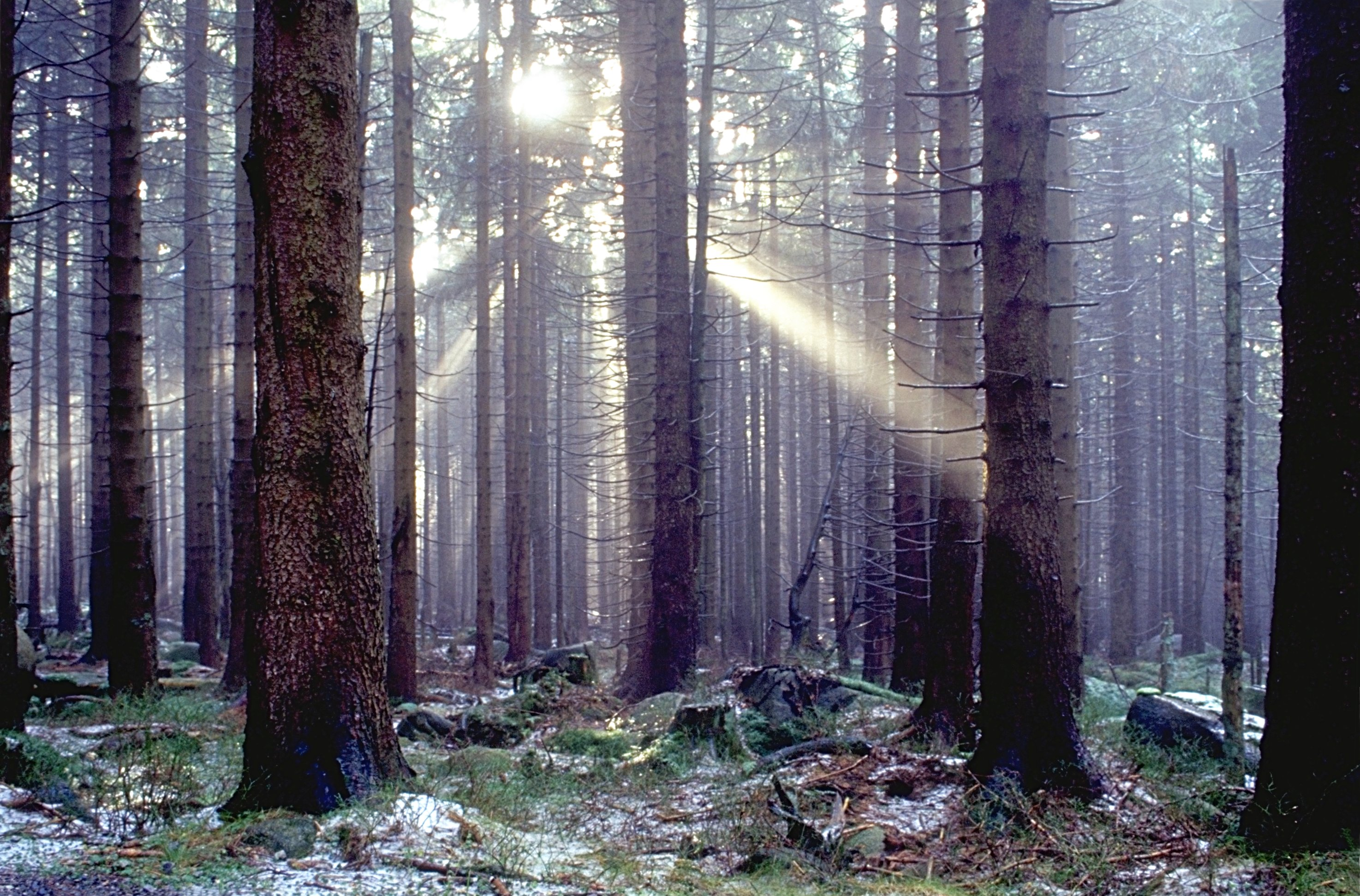 Sun shining through dust in wood, National park Hochharz, Germany Photo was taken using the following technique: Film: Kodak Elite Extra Colour Lens: Minolta 2.8/28 Filter: none Body: Minolta 600si Support: simple tripod Image with Information in English Bild mit Informationen auf Deutsch